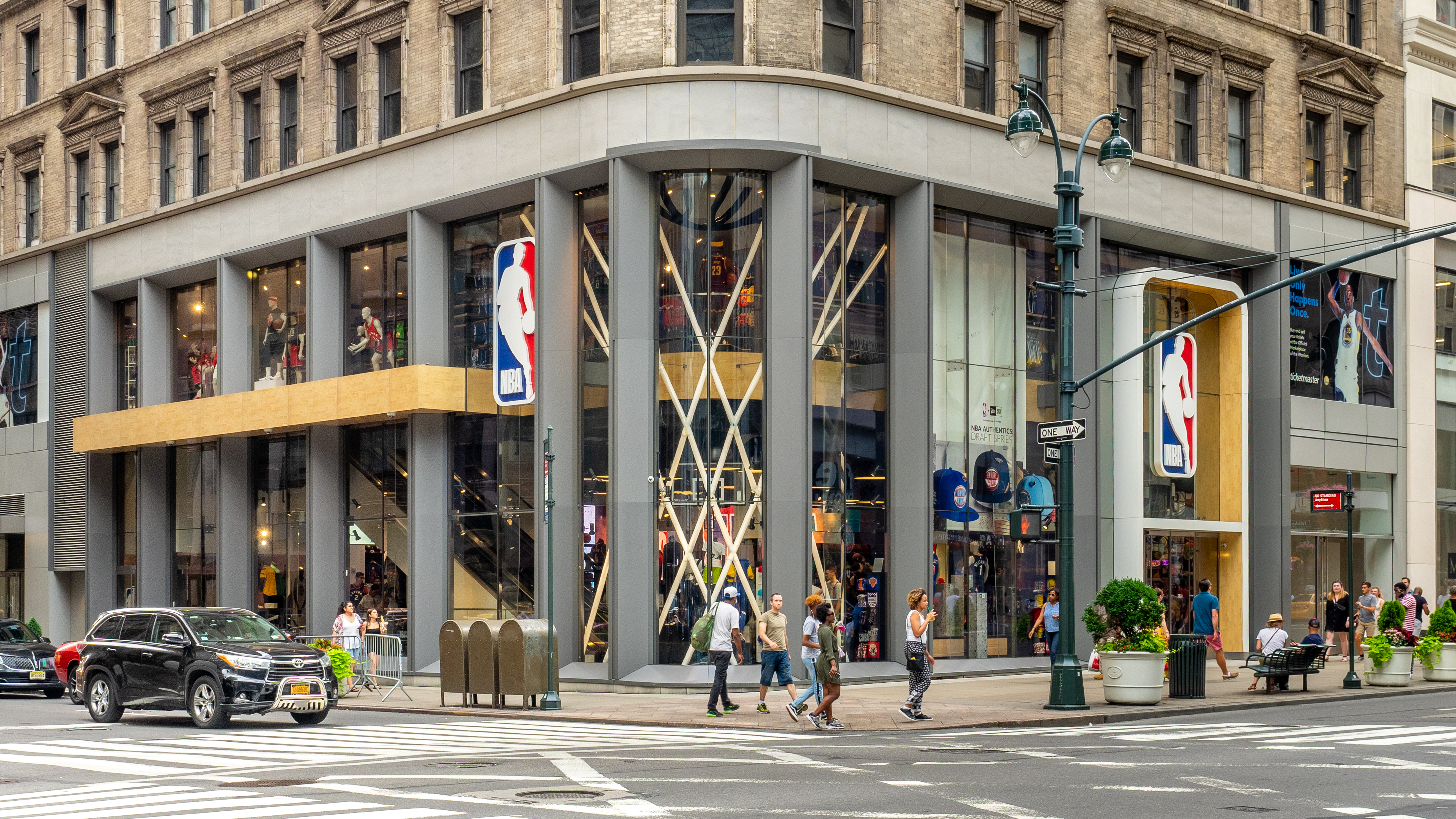 Midtown Manhattan, NYC